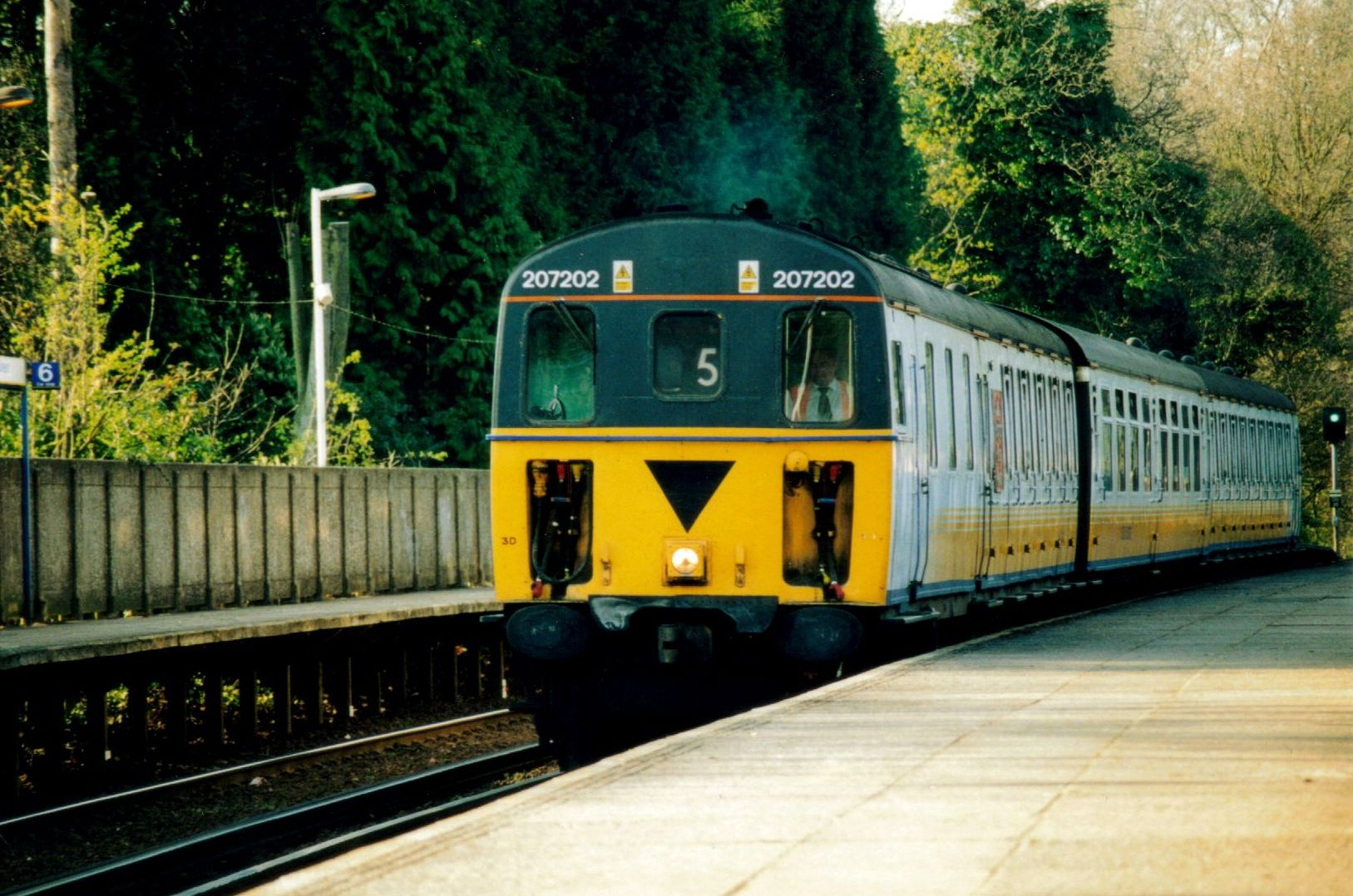 Southern DEMU 207202, still in Connex livery, at Hurst Green in April 2002.